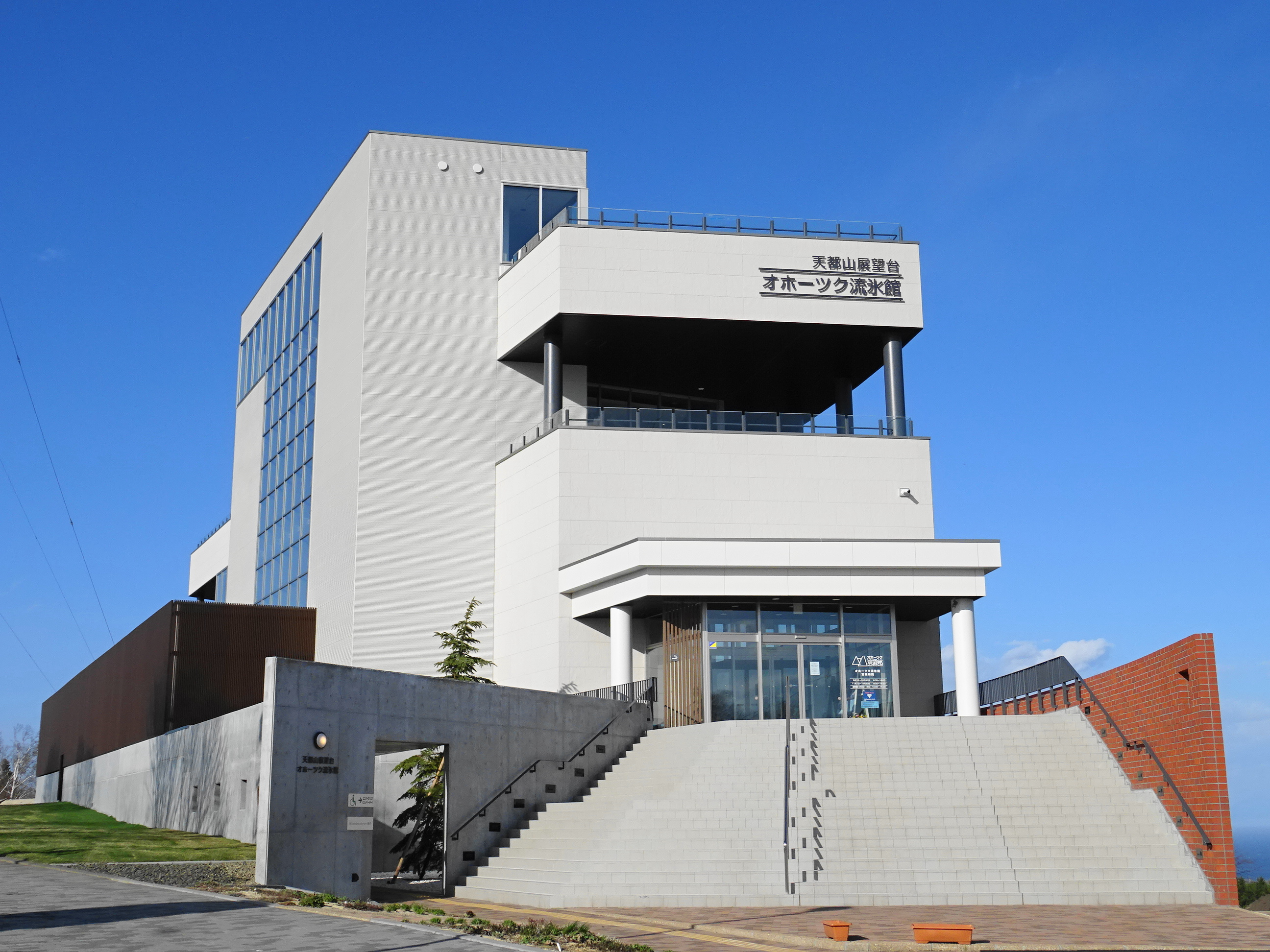 Mt.Tento observatory, Okhotsk drift ice museum